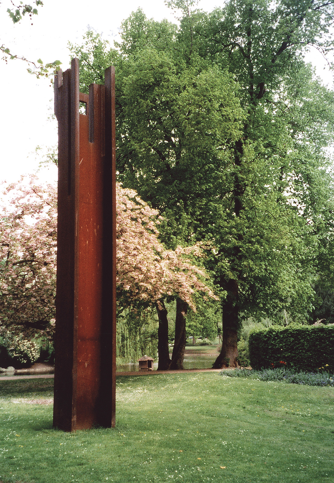 Ricardo Ugarte Zubiarrain, Gaztelu, - Germany, Hesse, Wiesbaden, Warmer Damm spa garden